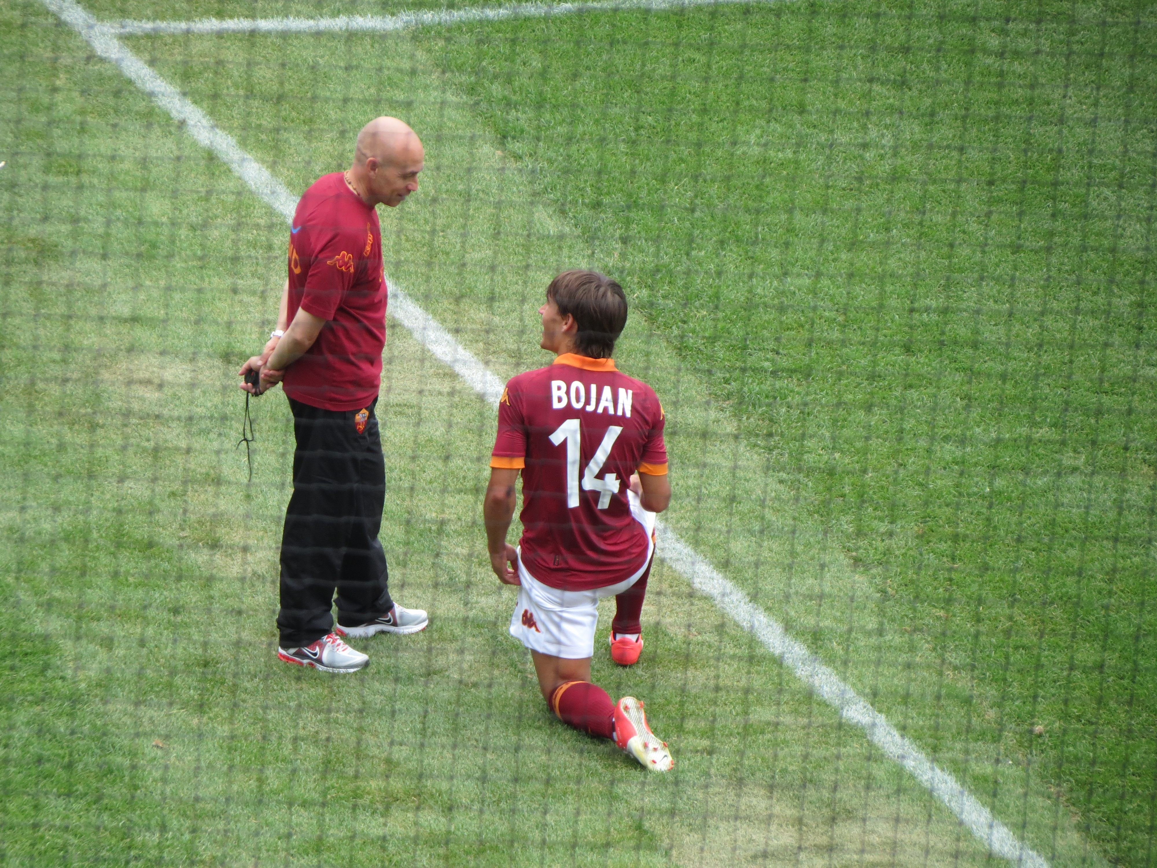 Bojan of A.S. Roma chats with a coach.